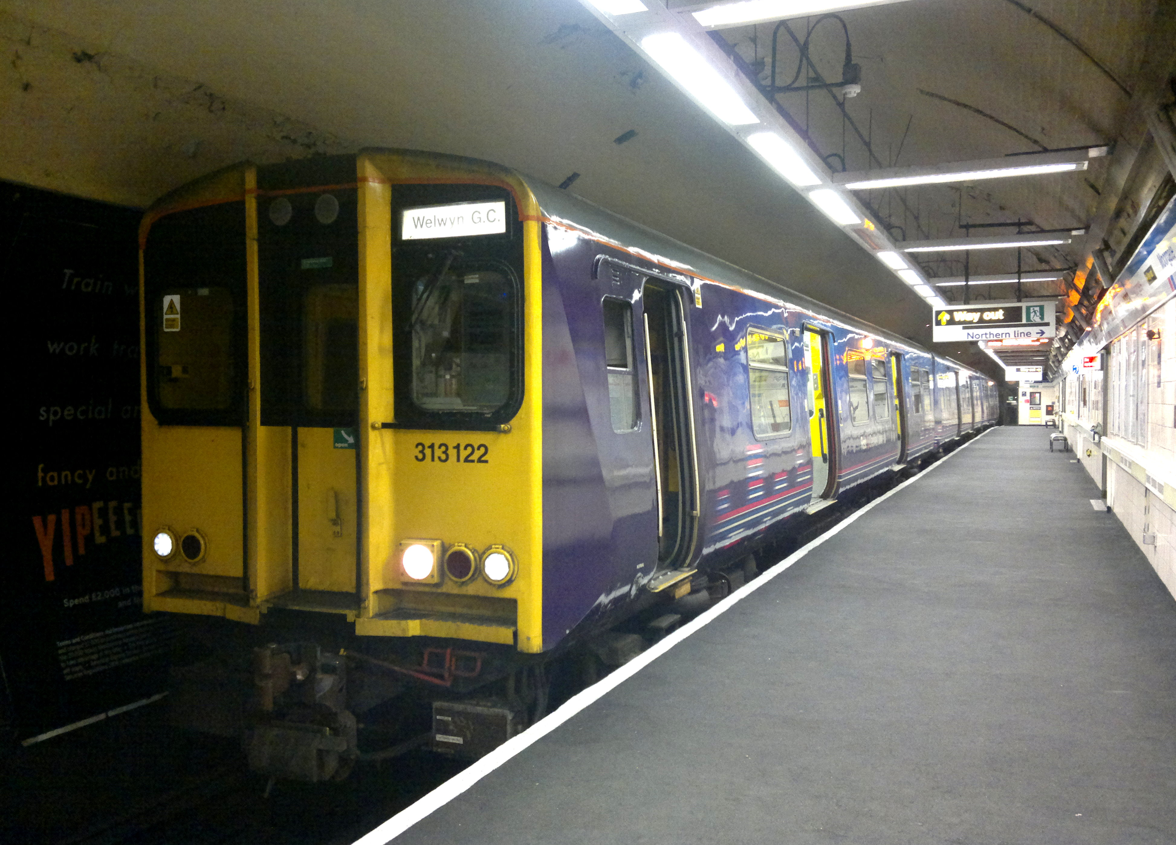 Welwyn Garden City Train, Moorgate 8 May 2013.